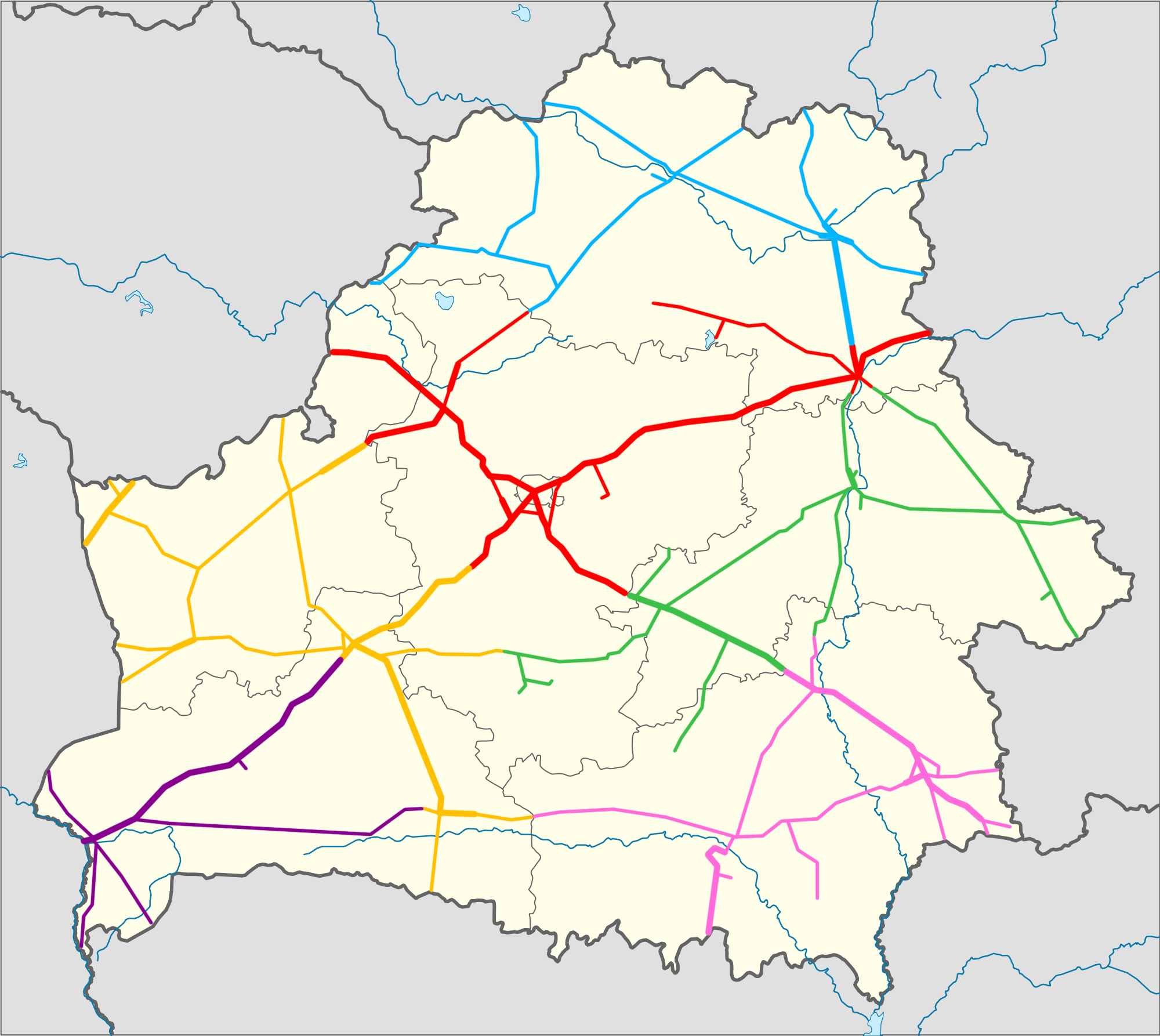 Map of Belarusian Railroad on the map of Belarus. Minsk branch Brest branch Homiel (Gomel) branch Viciebsk (Vitebsk) branch Mahiliow (Mogilev) branch Baranavichy (Baranovichi) branch